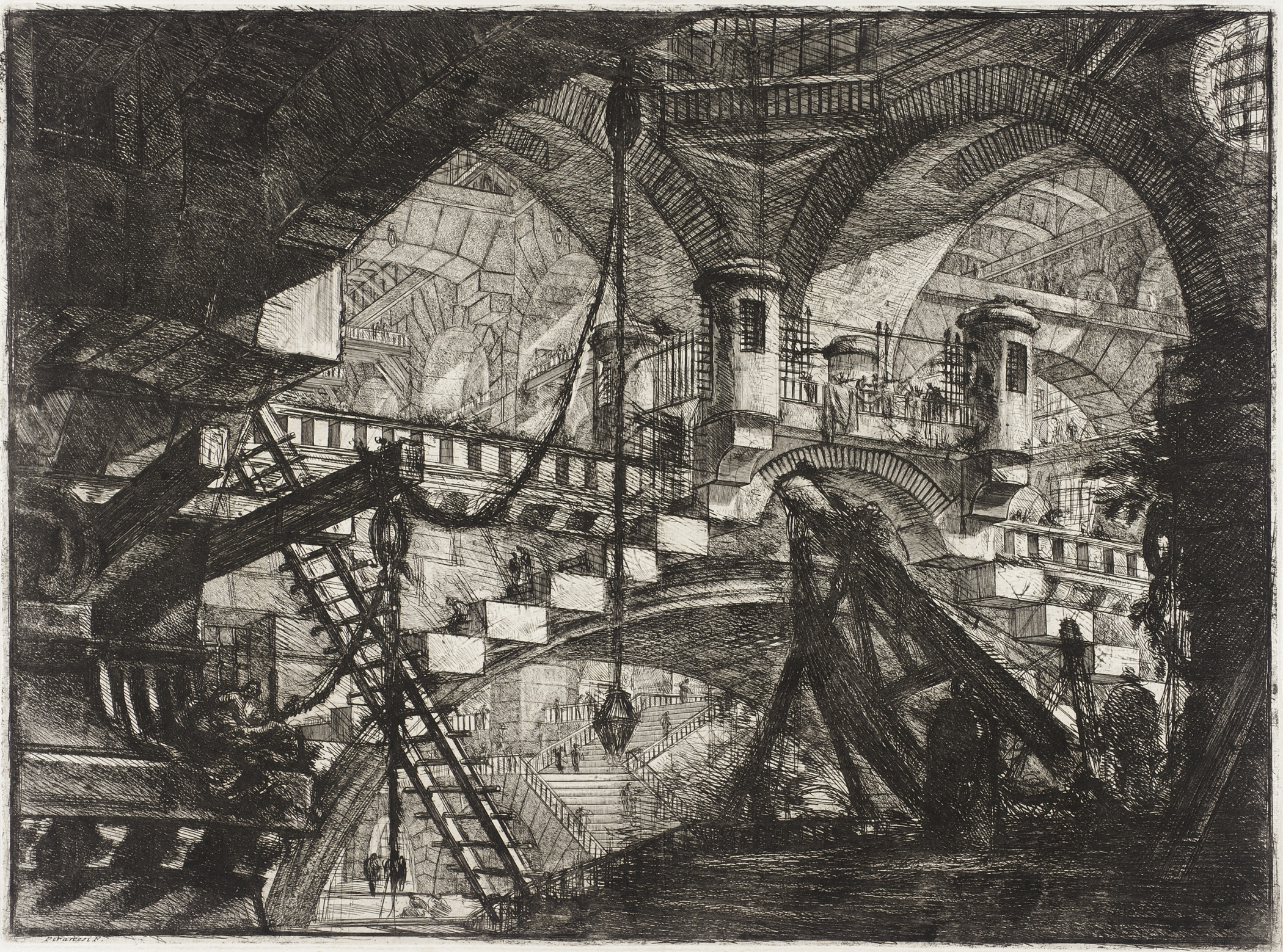 Italy, 1761 Series: Le Carceri d'invenzione, pl XI Prints; etchings Etching William Randolph Hearst Collection (46.27.11) Prints and Drawings